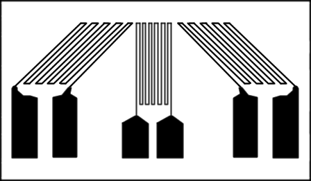 Schematic of a Rosette